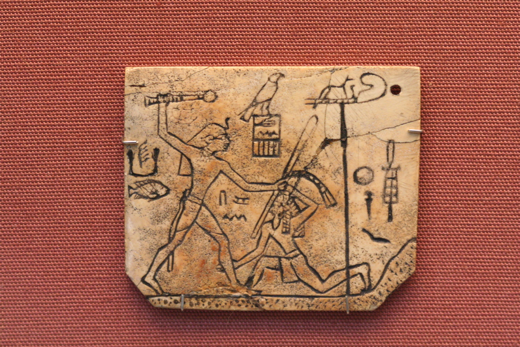 I had a wonderful day at the British Museum with CoryQ (of MonkeyRiverTown) and his wife Mary. These are everything I shot that day, unedited and uncleaned, except for shrinking them some to spead up the upload.